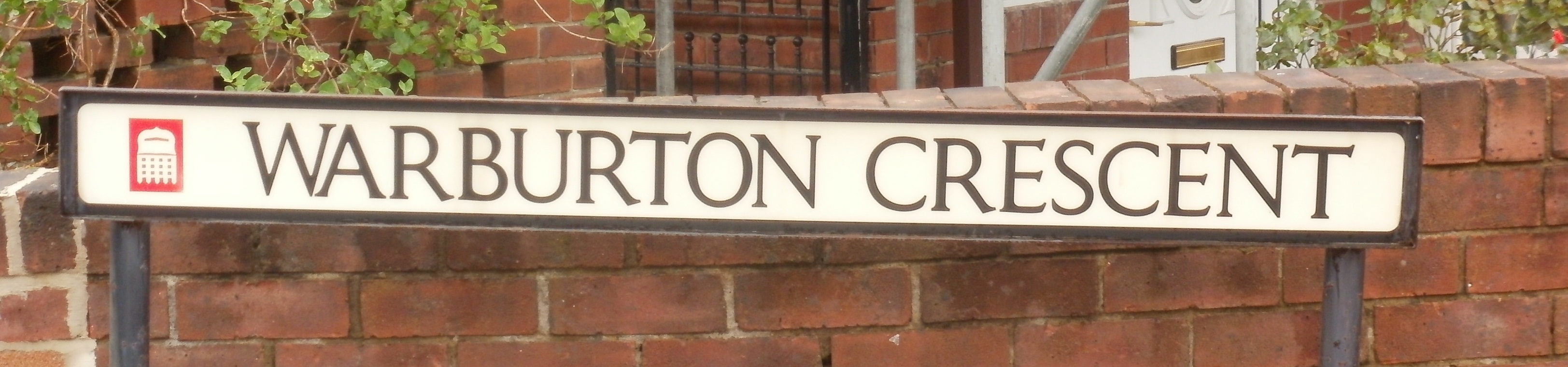 A surviving reference to Carr Hill's potting past; Warburton Street, named in honour of Warburton's Pottery located here in the 18th and 19th century